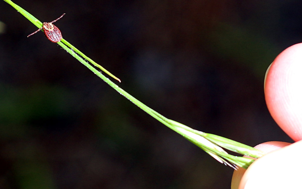 Tick, on a blade of grass, forelegs extended hopefully to grab some passer-by. Central Massachusetts 20140703.